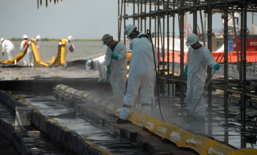 Decontamination of containment boom used in the Deepwater Horizon oil spill.